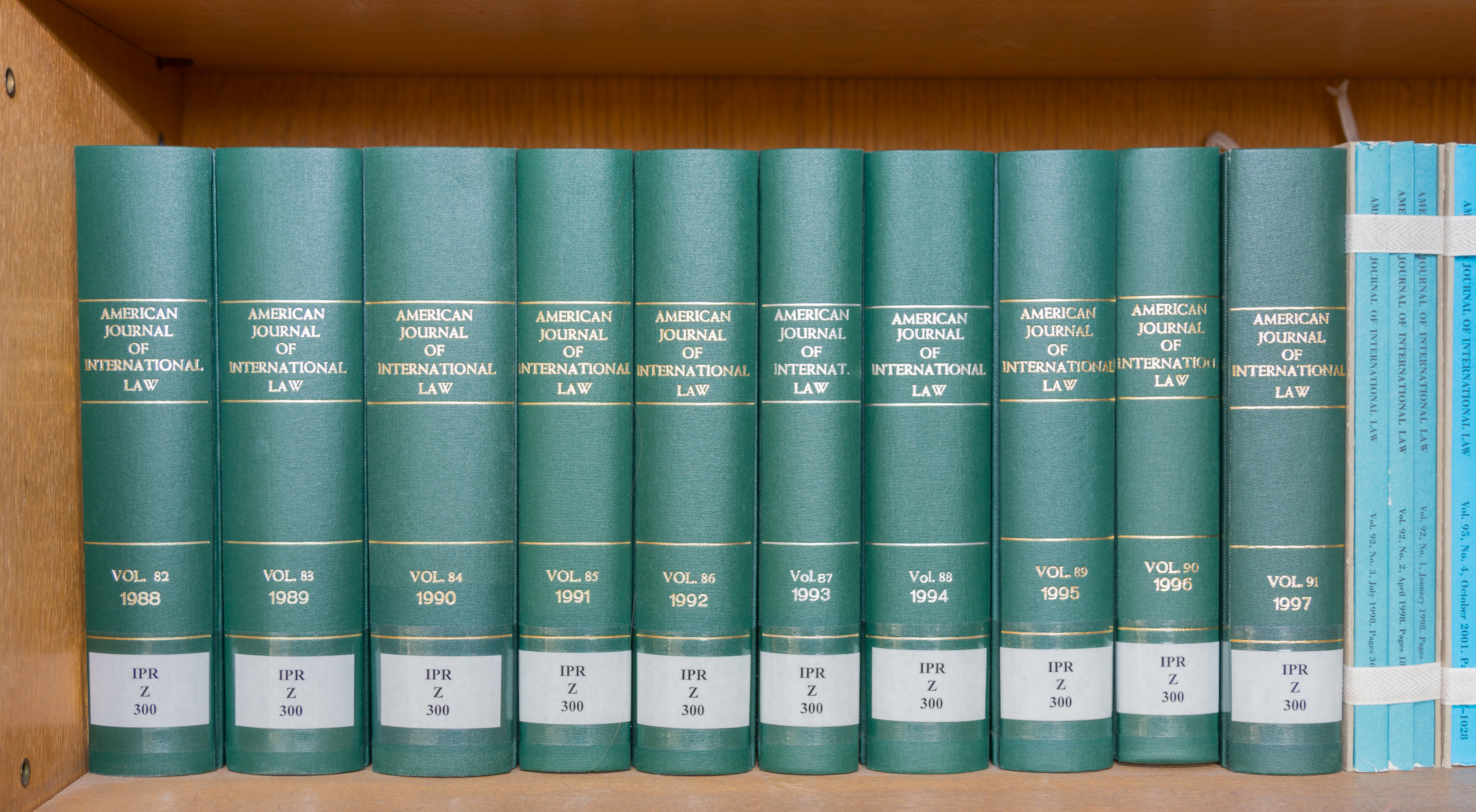 Bound volumes of American Journal of International Law in the Civil Law Library (Gemeinsame Bibliothek der Zivilrechtlichen Institute – Zivilrechtliche Bibliothek/ZRB) at the Juridicum, 14-16 University Street (Universitätsstraße 14-16) in the city centre of Münster, North Rhine-Westphalia, Germany. The ZRB is one of the several libraries of the University of Münster (Westfälische Wilhelms-Universität Münster). Picture taken with permission by the Juridicum/ZRB staff.